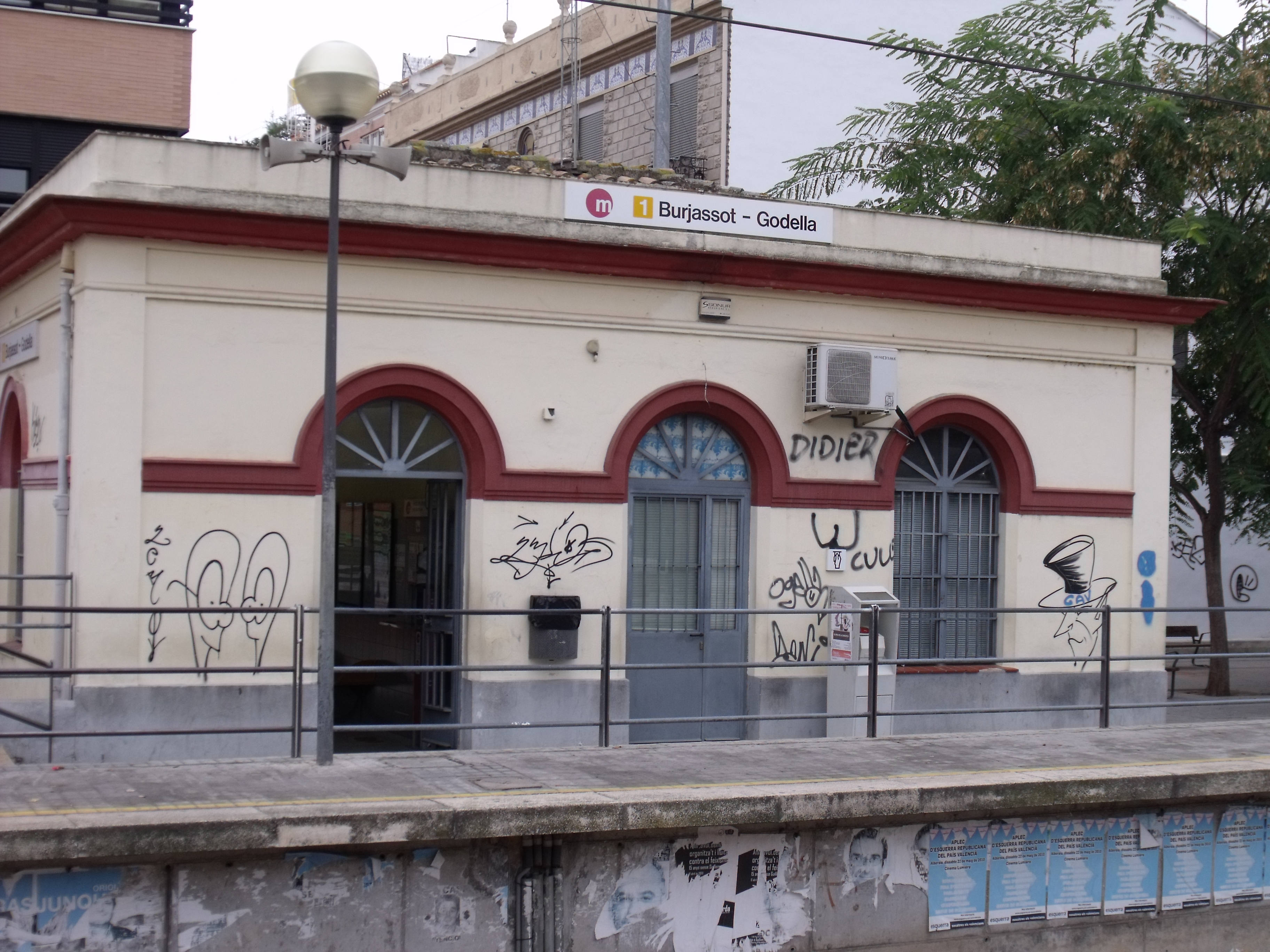 Burjassot Godella station, in Metro Valencia network. The station is completely in Burjassot.